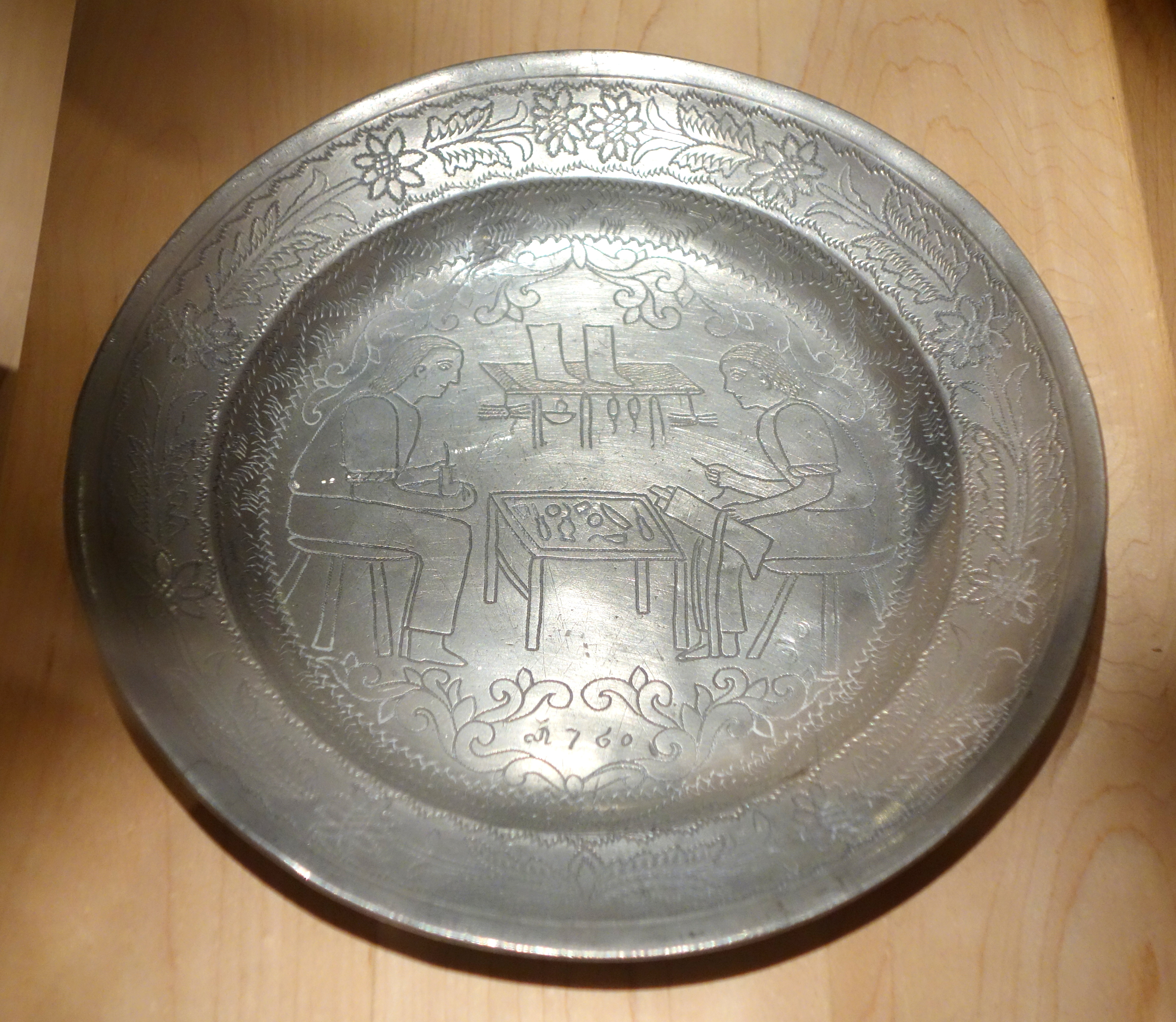 Exhibit in the Bata Shoe Museum, Toronto, Ontario, Canada. This item is old enough so that its design is in the public domain. The museum permitted photography without restriction.